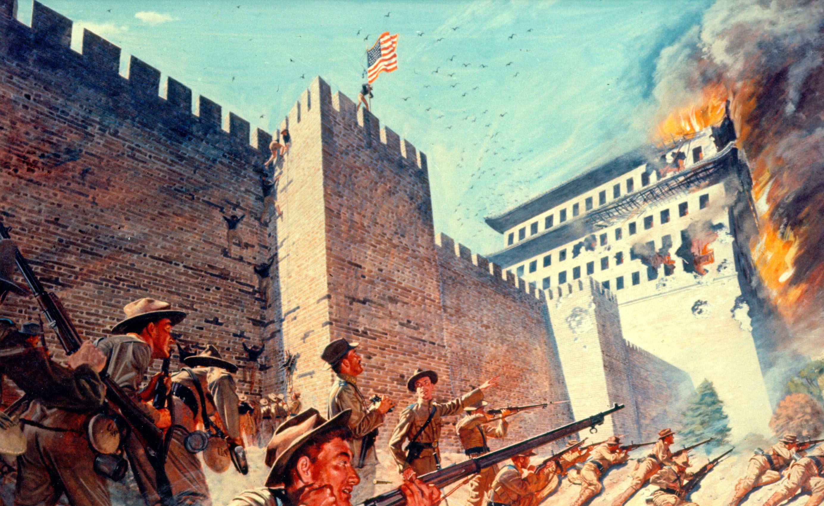 I'll Try, Sir!. American troops in the relief of Peking in China on 14 August 1900 during the Boxer Rebellion. During the fiercely opposed relief expedition to Peking in the Boxer Rebellion in 1900, when two companies of the U.S. Army's 14th Infantry Regiment were pinned by heavy fire from the east wall of the Tartar City and the Fox Tower between abutments of the Chinese City Wall near Tung Pien Gate, volunteers were called for to attempt the first perilous ascent of the wall. Trumpeter Calvin P. Titus of E Company immediately stepped forward saying, "I'll try, sir!" Using jagged holes in the stone wall, he succeeded in reaching the top. He was followed by the rest of his company, who climbed unarmed, and hauled up their rifles and ammunition belts by a rope made of rifle slings. As the troops ascended the wall artillery fire from Reilly's battery set fire to the Fox Tower. In the face of continued heavy Chinese fire, the colors broke out in the August breeze as the sign that U.S. Army troops had achieved a major step in the relief of the besieged Legations. For his courageous and daring deed in being the first to climb the wall, Trumpeter Titus was awarded the Congressional Medal of Honor.